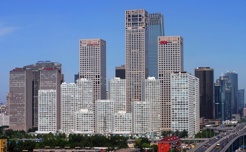 Beijing CBD - Jianwai SOHO, Yintai, WTC, Jingguang